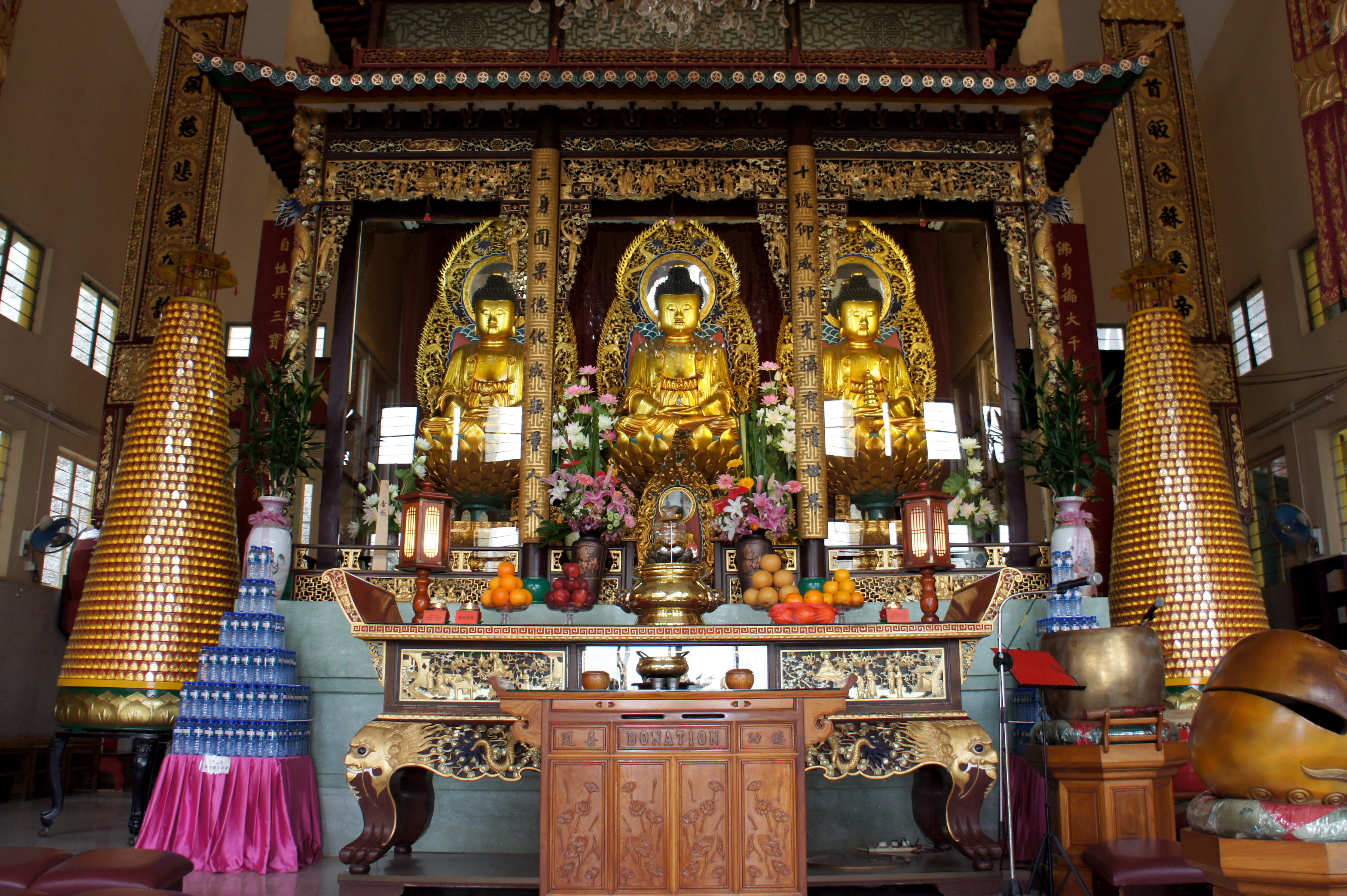 Main Shrine of the Lo Hon Monastery, Shek Mun Kap, Tung Chung, Hong Kong.